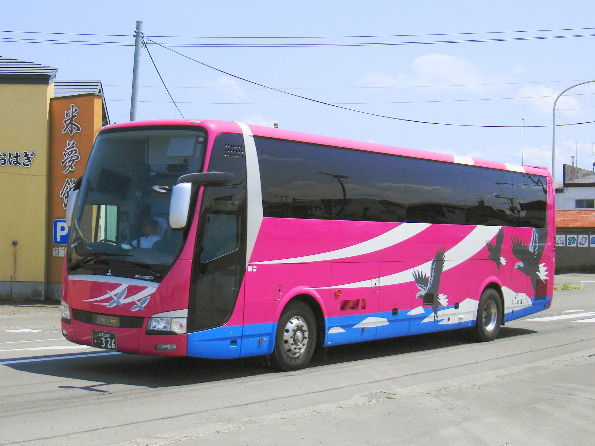 "Eagle Liner" Shiretoko National Park to Sapporo